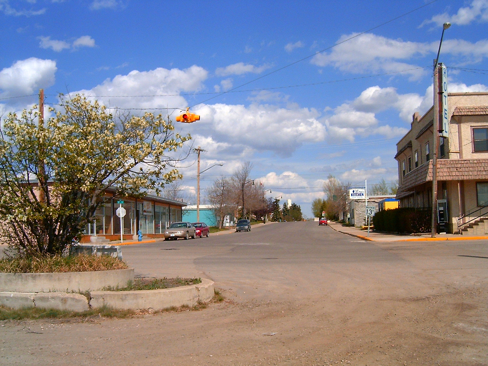 Looking eastward along 20 Avenue from 20 Street in Bowden, Alberta, Canada.